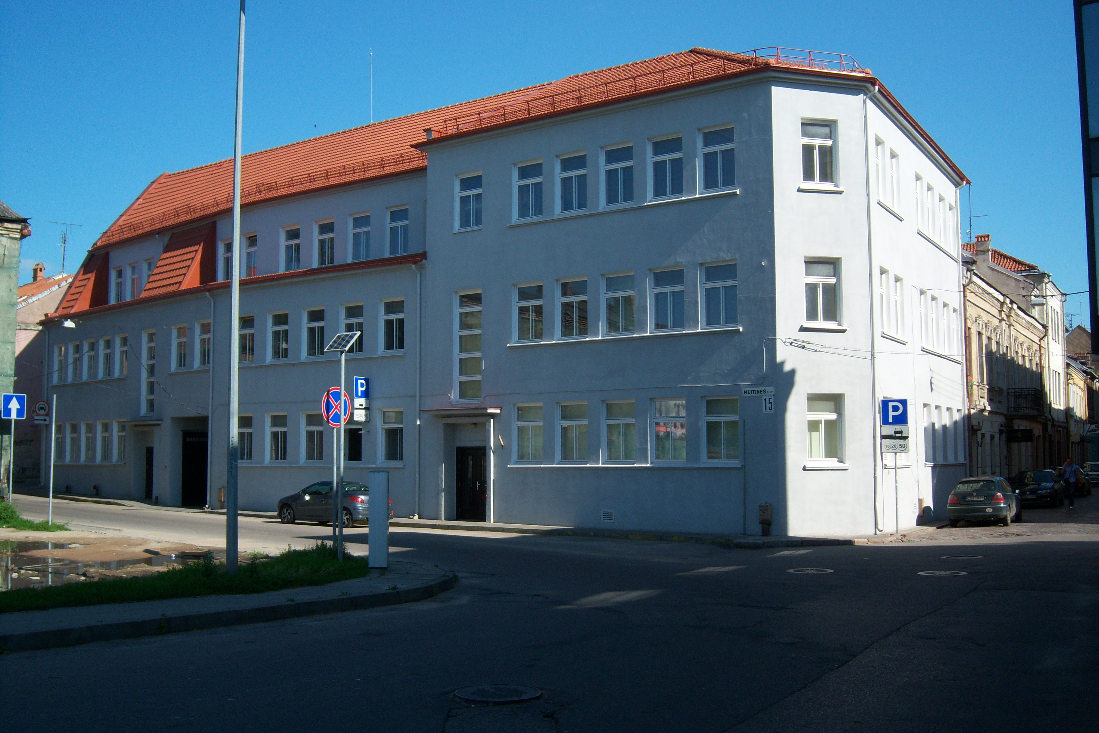 Kaunas College, Lithuania